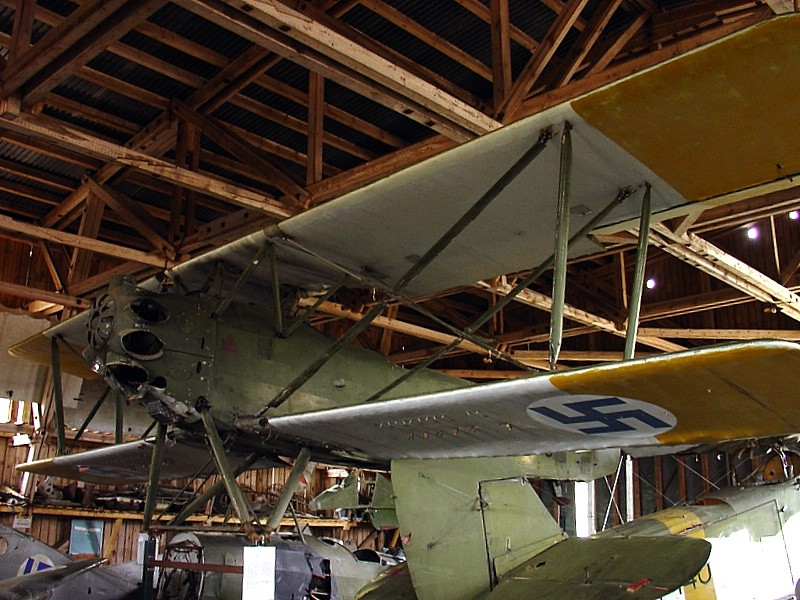 Aero A-32 GR, AEj-59 in Päijänne Tavastia Aviation Museum in Vesivehmaa, Asikkala, Finland